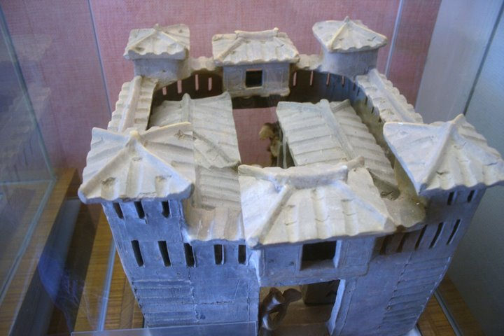 A Chinese pottery model of a fortified castle with gatehouses, watchtowers, and tiled rooftops, from the late Eastern Han (25–220 CE) period.